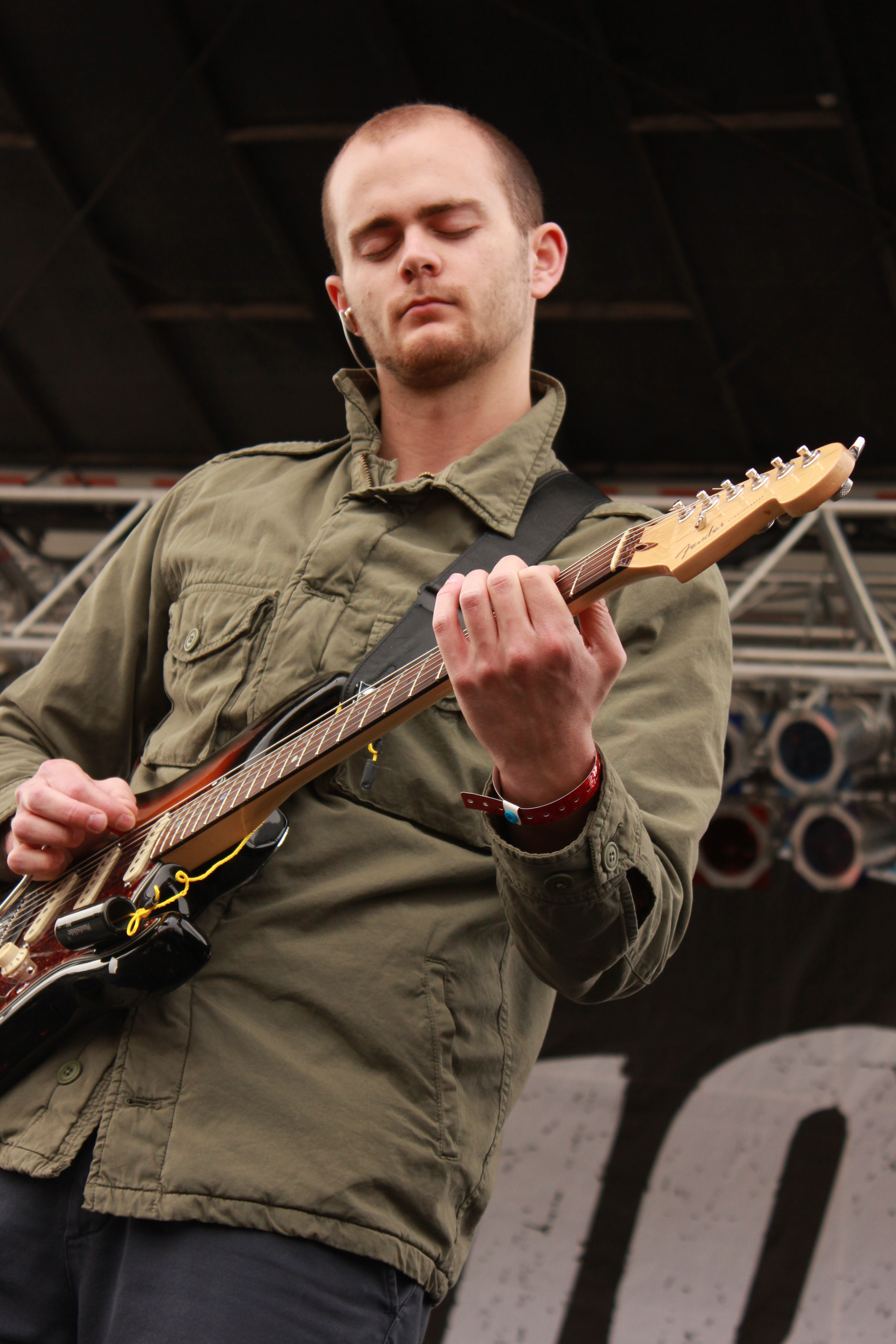 Daniel Kongos, member of the South African alternative rock band "Kongos"